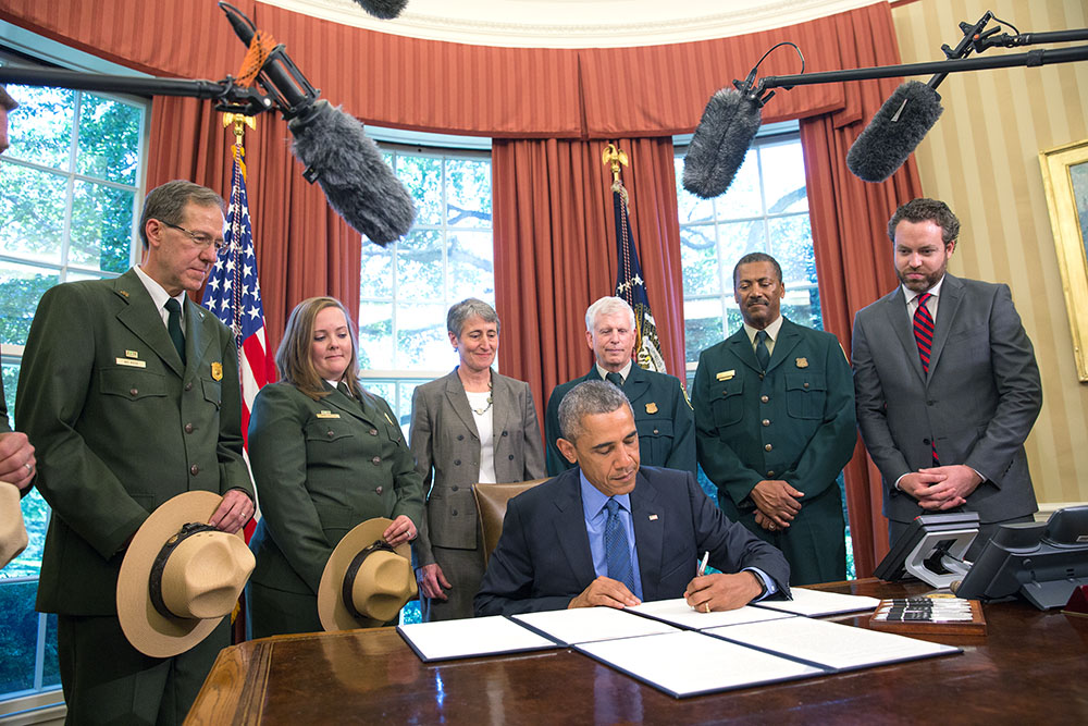 President Barack Obama signs National Monument designations in the Oval Office, July 10, 2015. The three new monuments include Berryessa Snow Mountain in California, Waco Mammoth in Texas, and the Basin and Range in Nevada. Standing behing the President, from left, are: Victor Knox, National Park Service, April Slayton, National Park Service, Interior Secretary Sally Jewell, Chief Tom Tidwell, Randy Moore, Forest Service, and Director Neil Kornze.